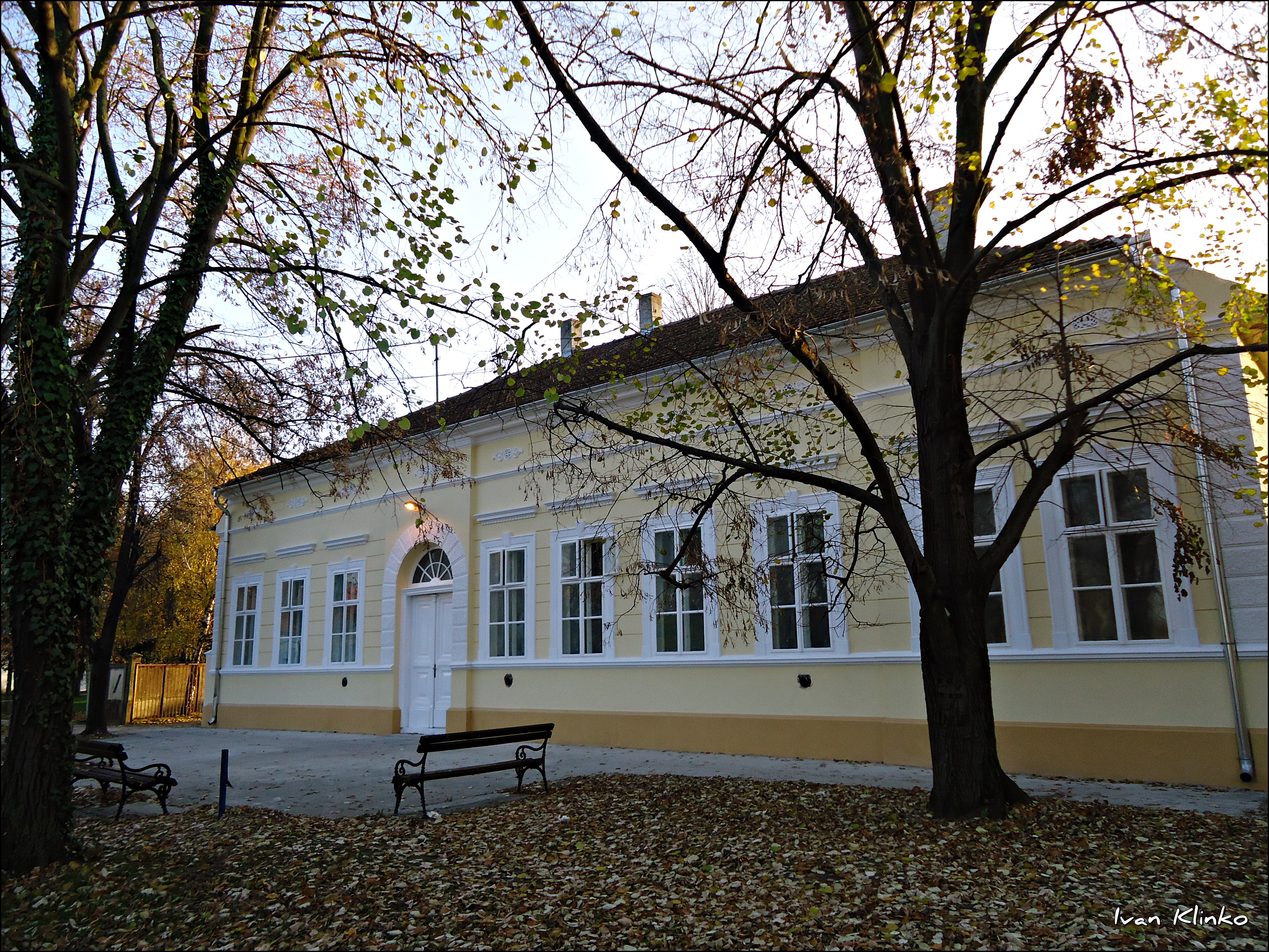 Miestne spoločenstvo Kysáč